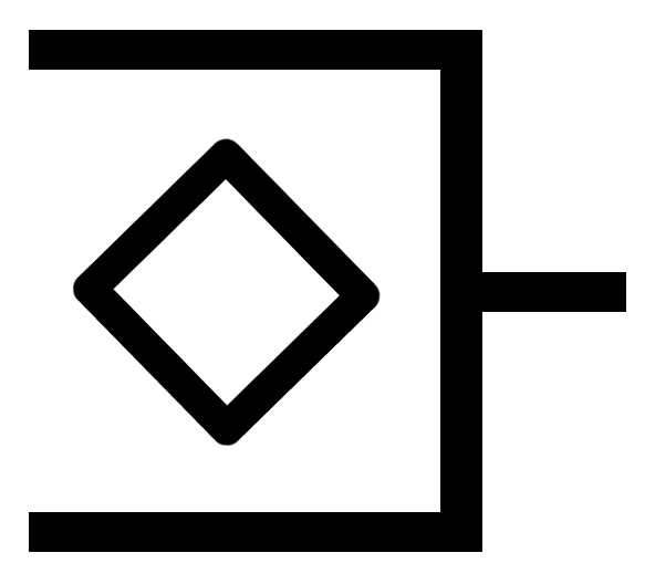 Open Collector